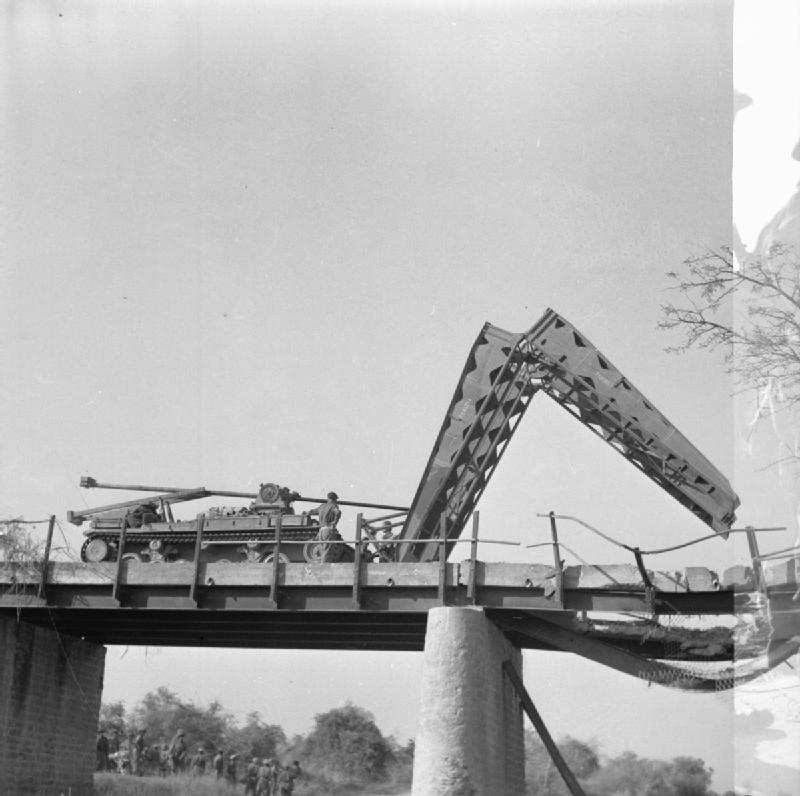 IWM caption : THE BRITISH ARMY IN BURMA 1945. A Valentine bridgelayer of the 3rd Independent Bridge Building Company, Royal Armoured Corps, spans a damaged bridge near Meiktila, 28 March 1945.